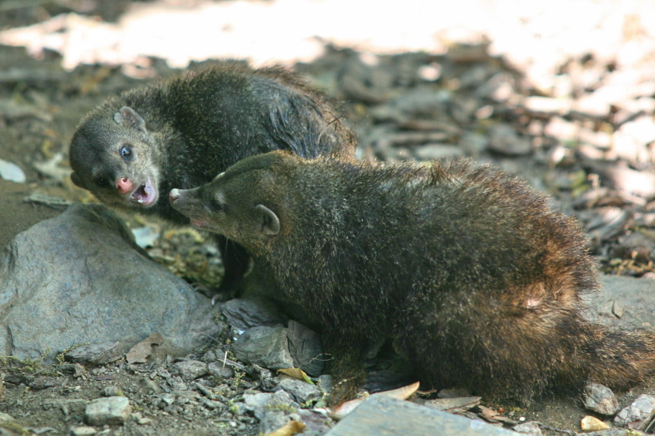 "Crossarchus obscurus" Cusimanses are highly gregarious, living in groups of 10-24 members. Usually 1-3 family units comprise a group, with each family unit consisting of a mated pair and their offspring. They are diurnal, and will wander throughout their territories constantly, never staying in one place too long. In their wanderings they will create temporary shelters for themselves. Cusimanses are often kept as pets, since they are easily tamed and make good pets. They are said to be affectionate, playful, easily housebroken, and clean, although sometimes they mark objects in the house with their scent glands.